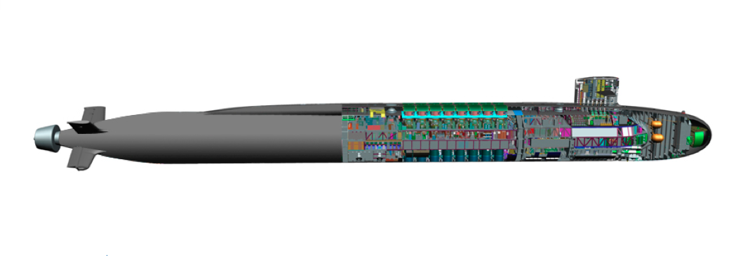 U.S. Navy slide presentation from the Naval Sea Systems Command dated April 8, 2014 briefing on the progress of the Ohio-class Replacement Program for the Navy’s next-generation nuclear ballistic missile submarine (SSBN) for the Sea, Air, and Space Symposium. Slide 2: Original Image